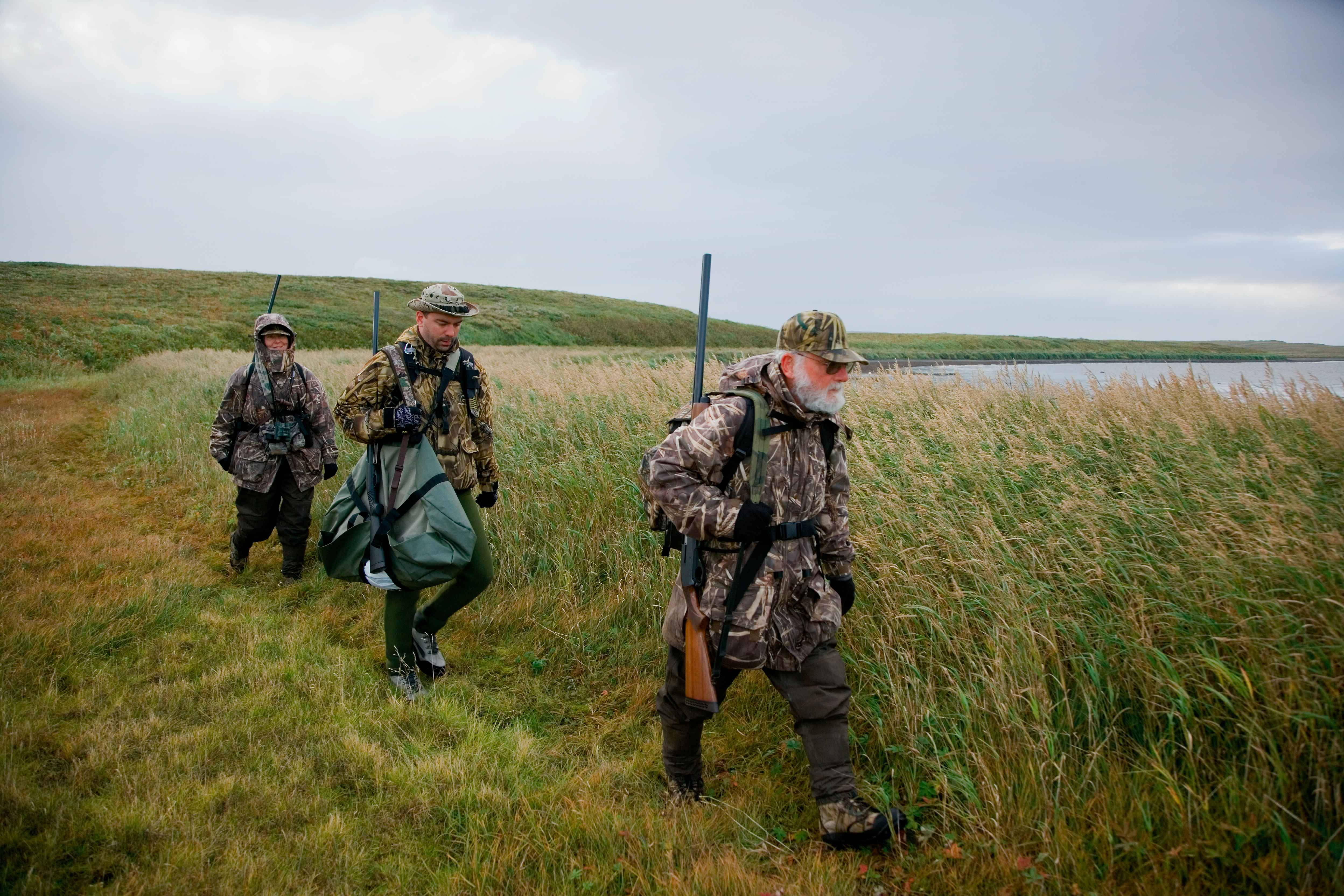 Image title: Group of duck hunters on lake Image from Public domain images website